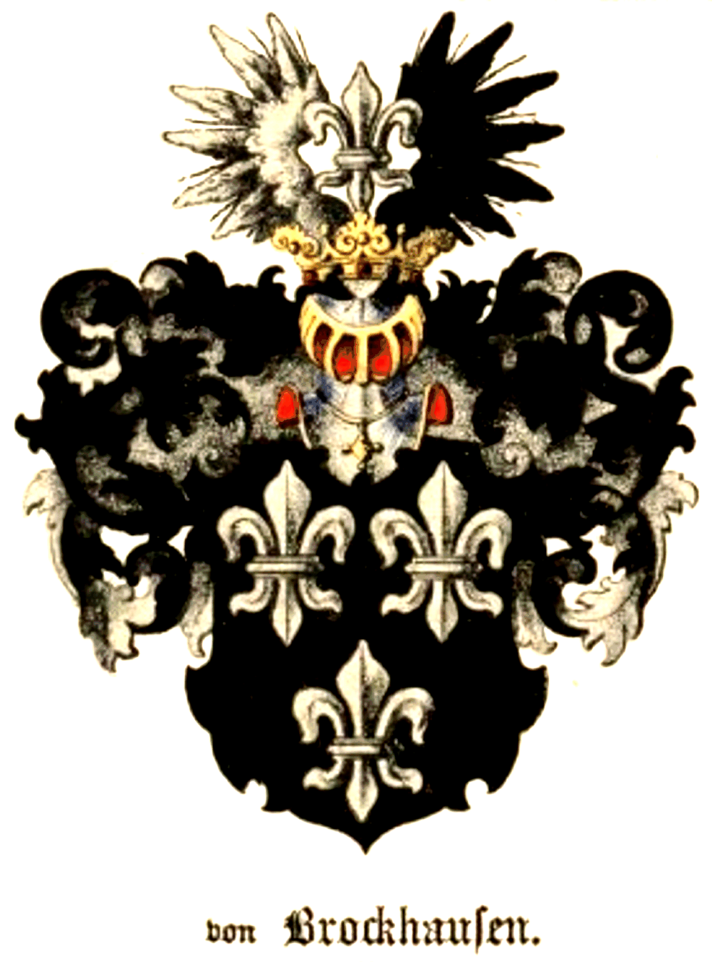 Coat of arms of Brockhausen family